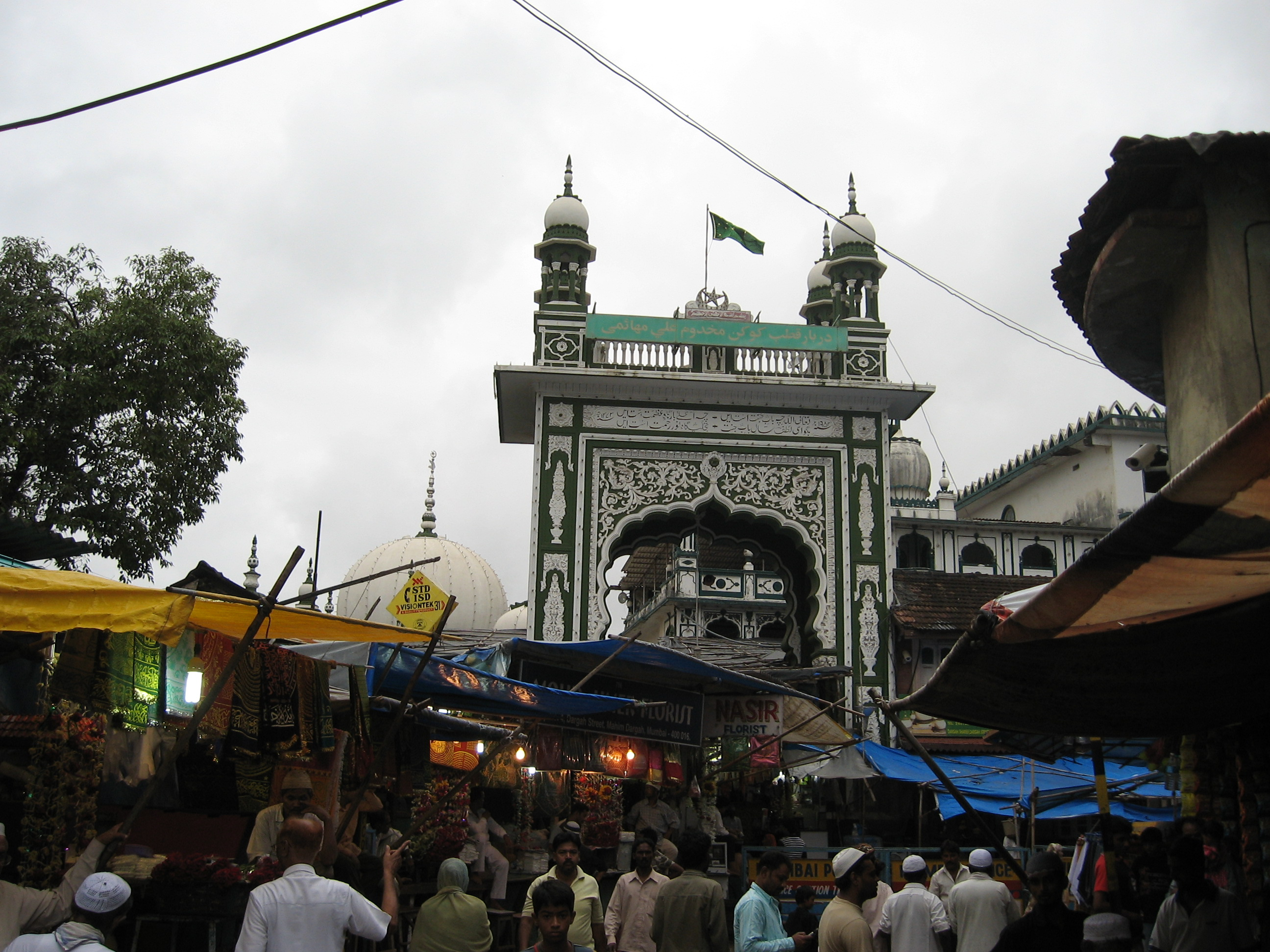 Dargah of Makhdoom Ali Mahimi, a fifteenth century Sufi saint in Mahim, Mumbai